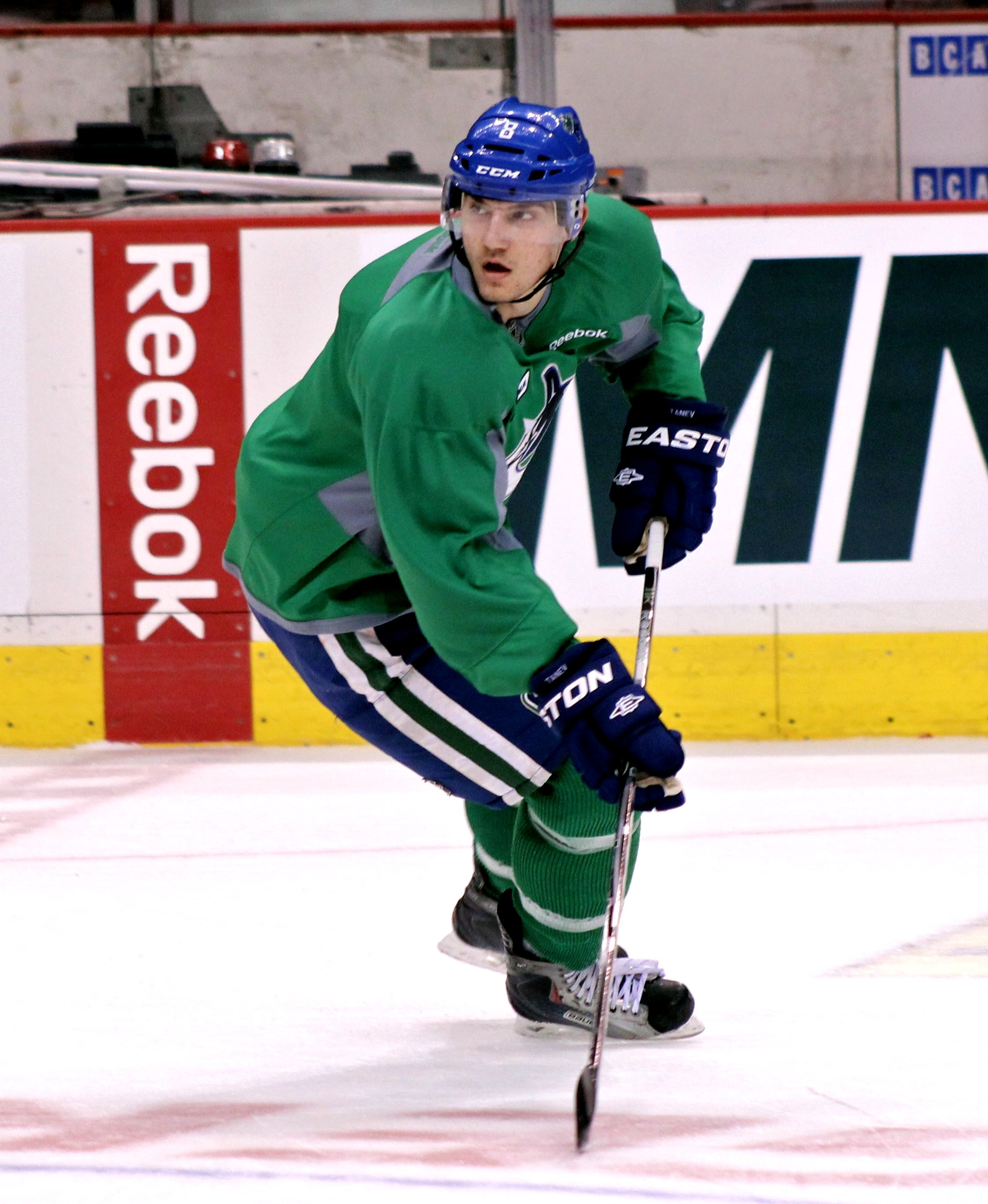 Vancouver Canucks defenceman Chris Tanev during a practice on March 9, 2012.